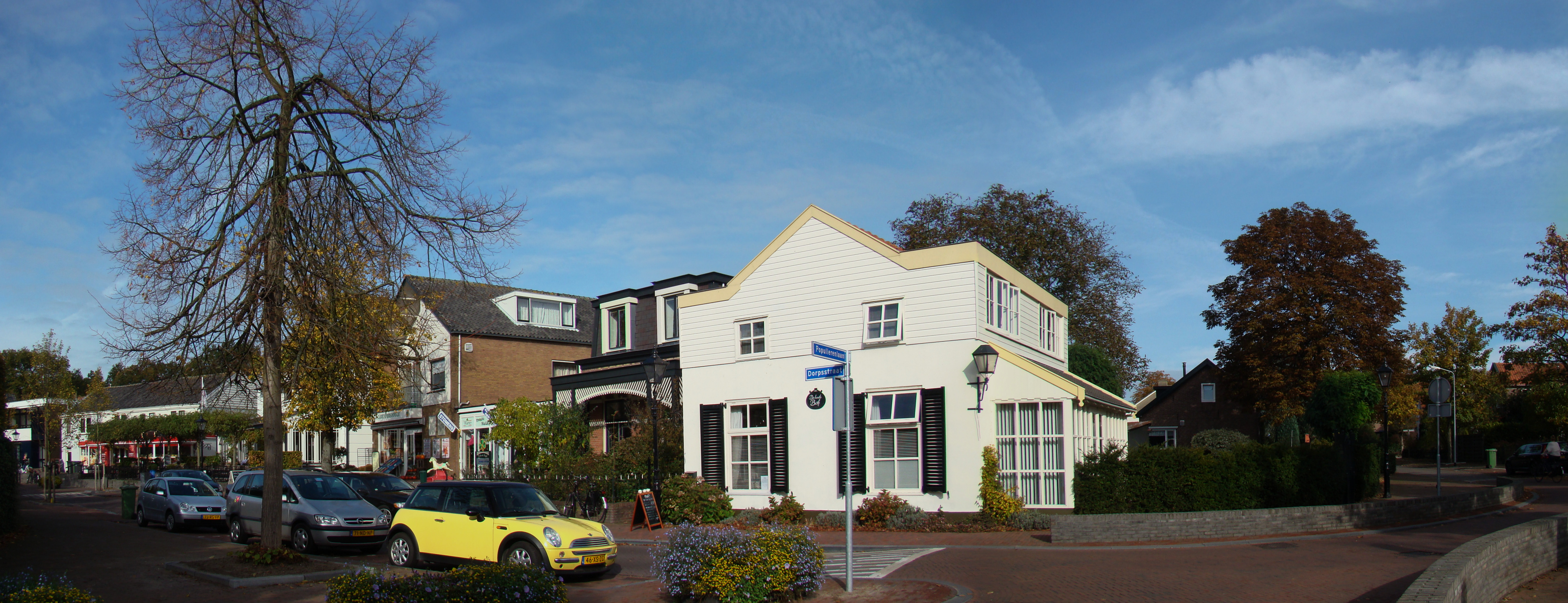 Dorpstraat Muiderberg, Netherlands